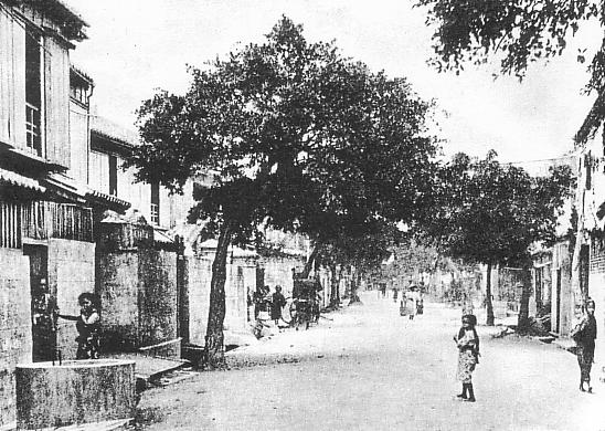 Tsuji area(Red-light district in Naha) in Pre-war Showa era